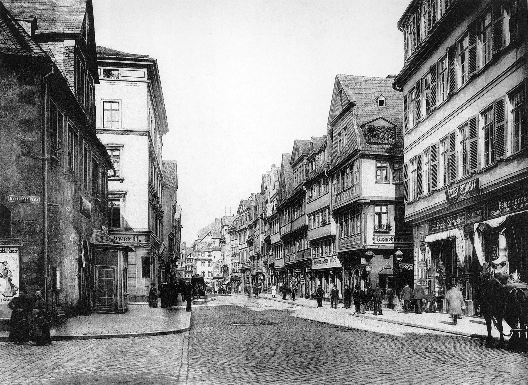 Frankfurt on the Main: Fahrgasse as seen to the north at about the Alte Mehlwaage (old flour scales)